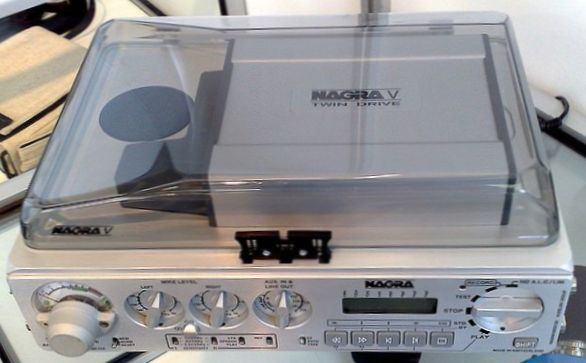 NAGRA V - 2ch Digital Audio Recorder using removable Hard Disk drive or CF Storage